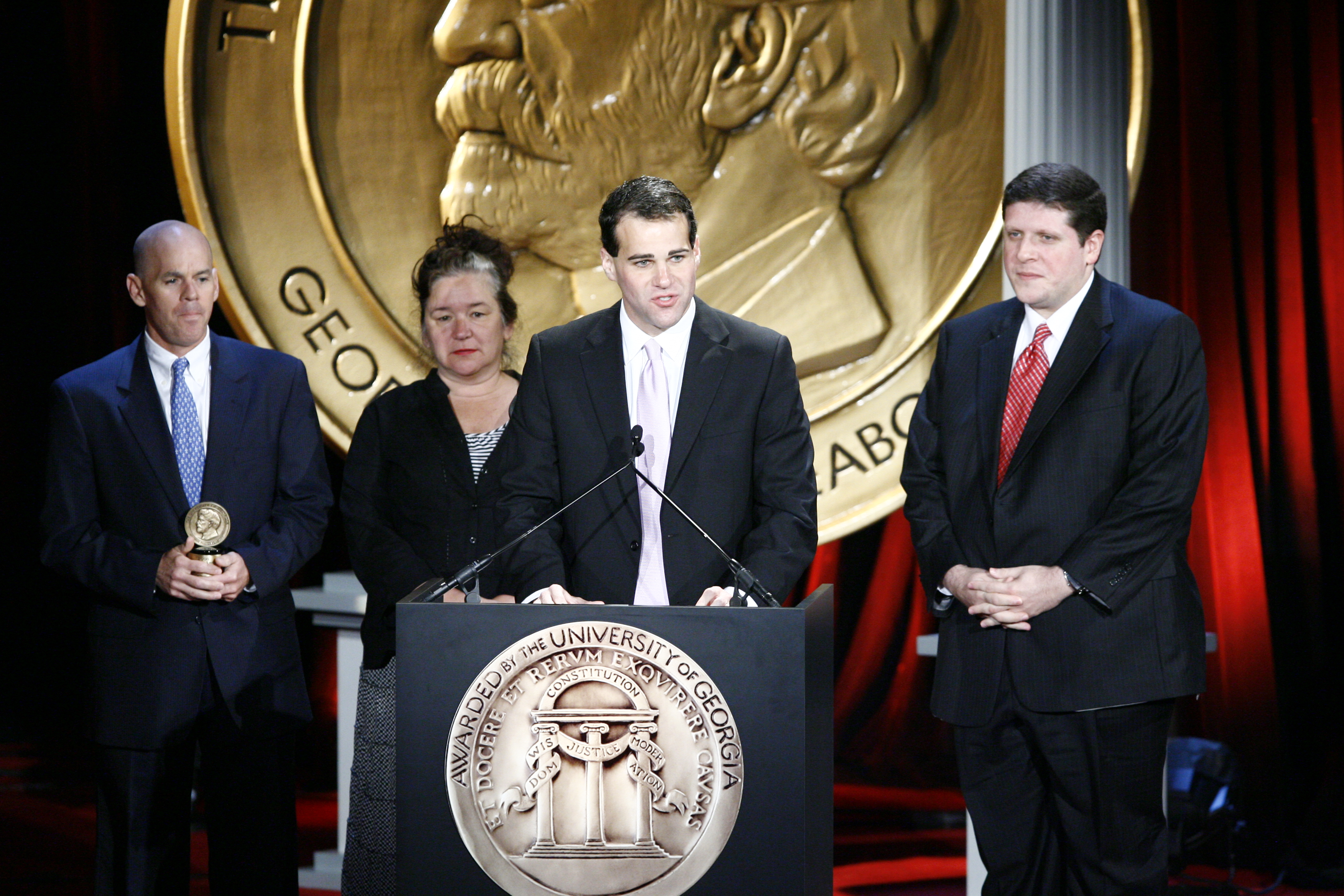 PHOTO CREDIT: ANDERS KRUSBERG / PEABODY AWARDS Tom Moore, Karen Gadbois, Lee Zurik and Dominic Massa 69th Annual Peabody Awards Luncheon Waldorf=Astoria Hotel New York, NY USA May 17, 2010